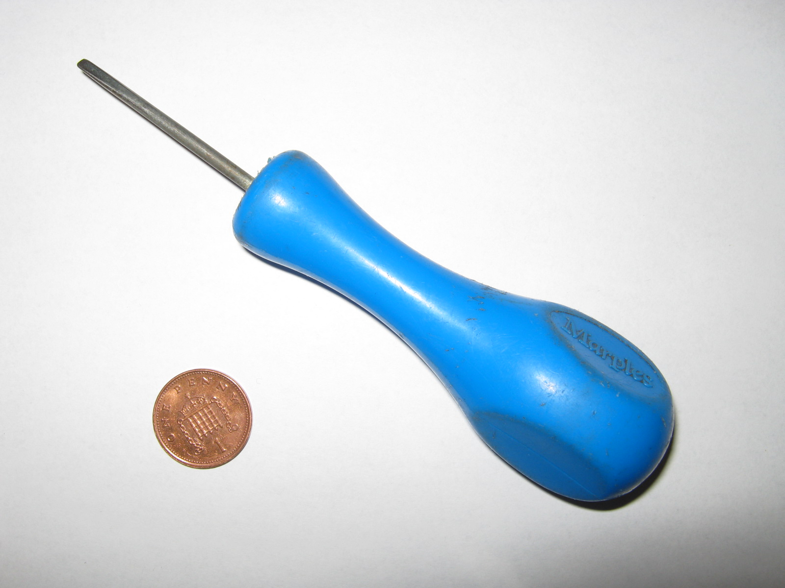 A tool known as a Bradawl, with British 1p coin for scale. 'Marples' brand, around 15cm long. 15th March 2013. For use at Bradawl